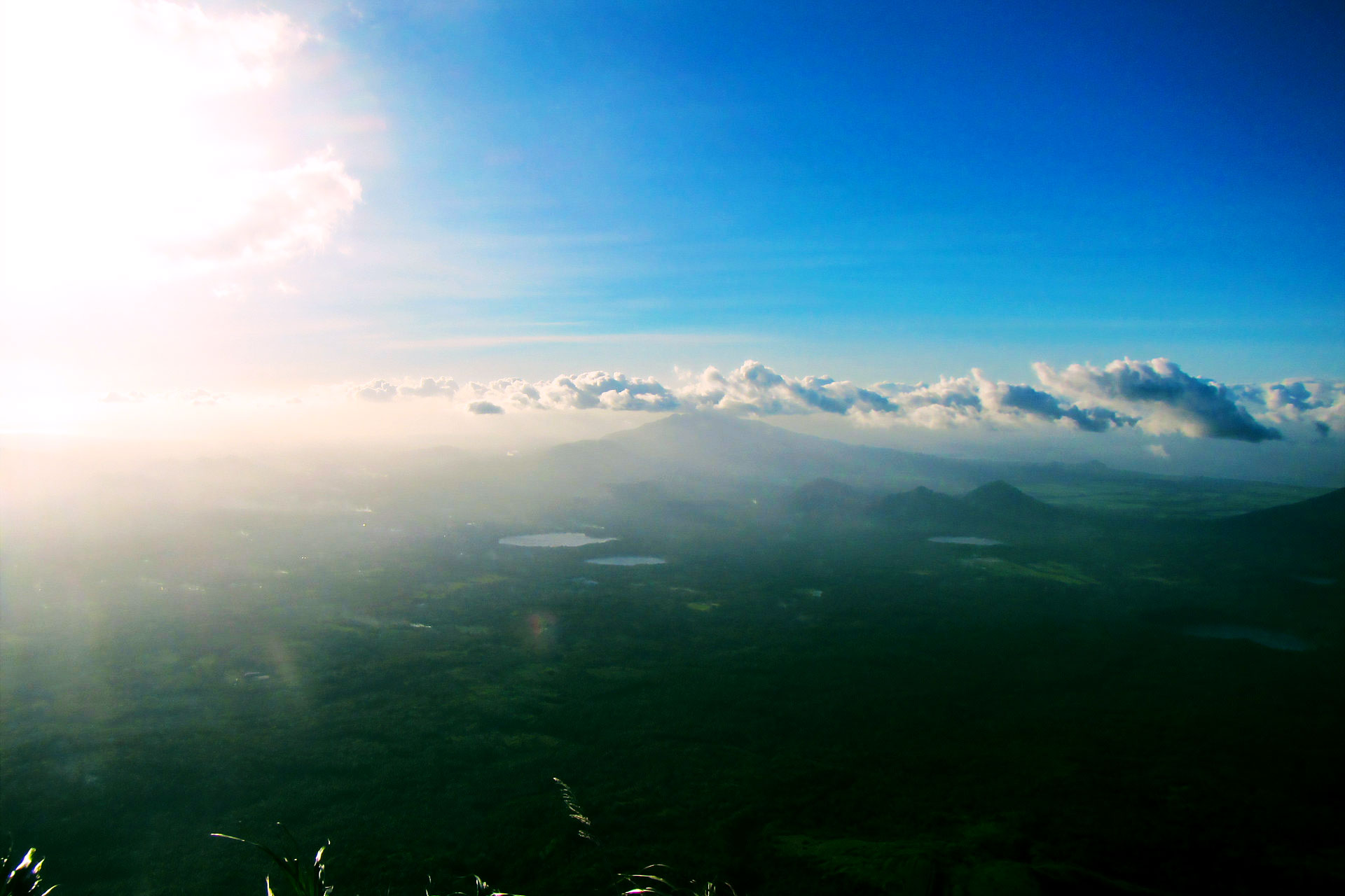 7 lakes of San Pablo City, Laguna as seen from the top of Mt. San Cristobal at 1470 meters above sea level. Shot by Schadow1 Expeditions.